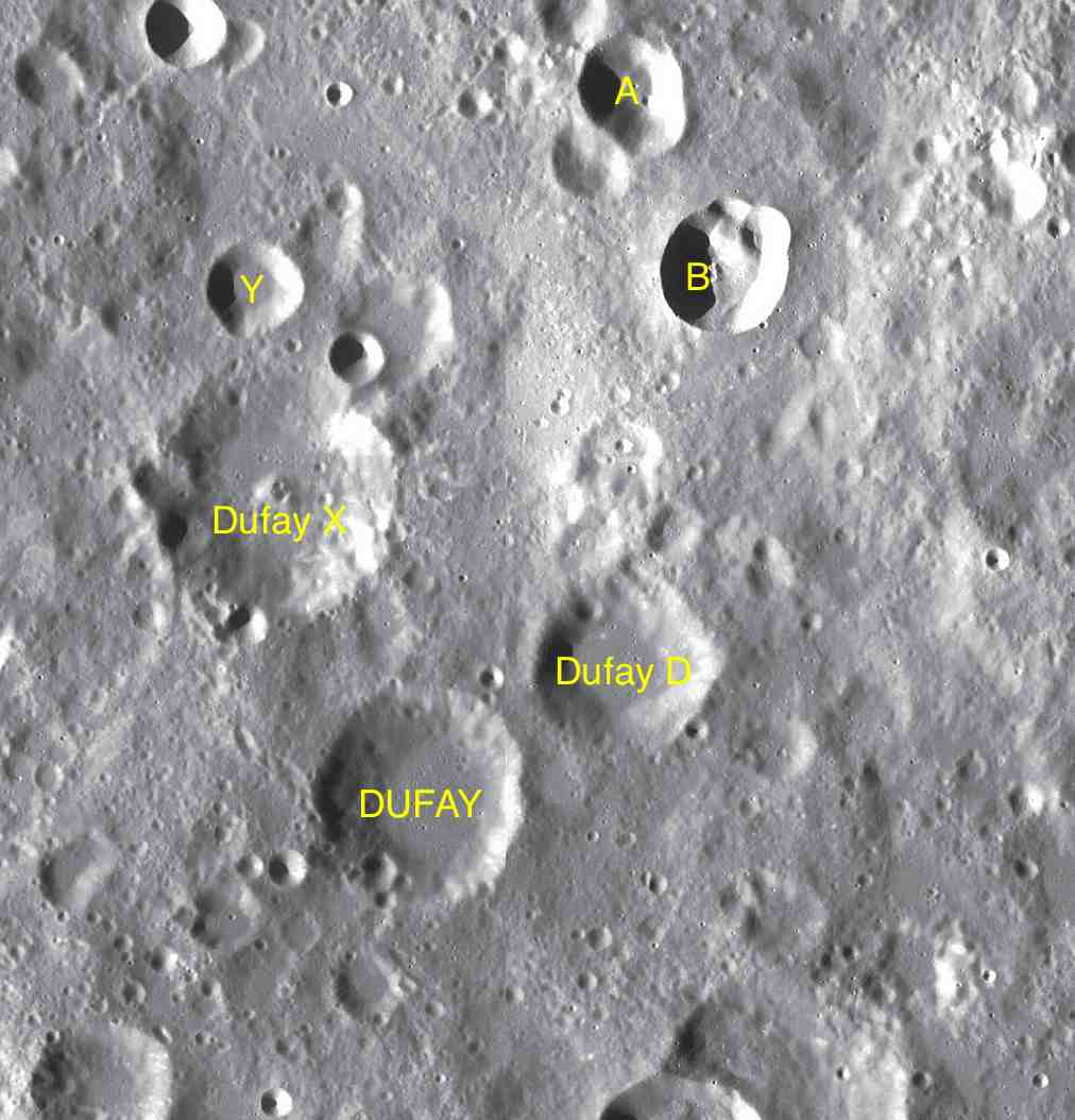 Parts of the charts LAC-67, LAC-68 used for the presentation